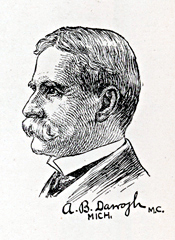 Archibald B. Darragh, US Representative from Michigan